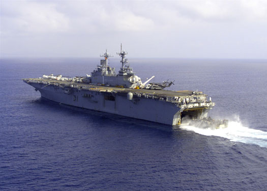 USS Wasp (LHD-1), port quarter view, showing LCAC